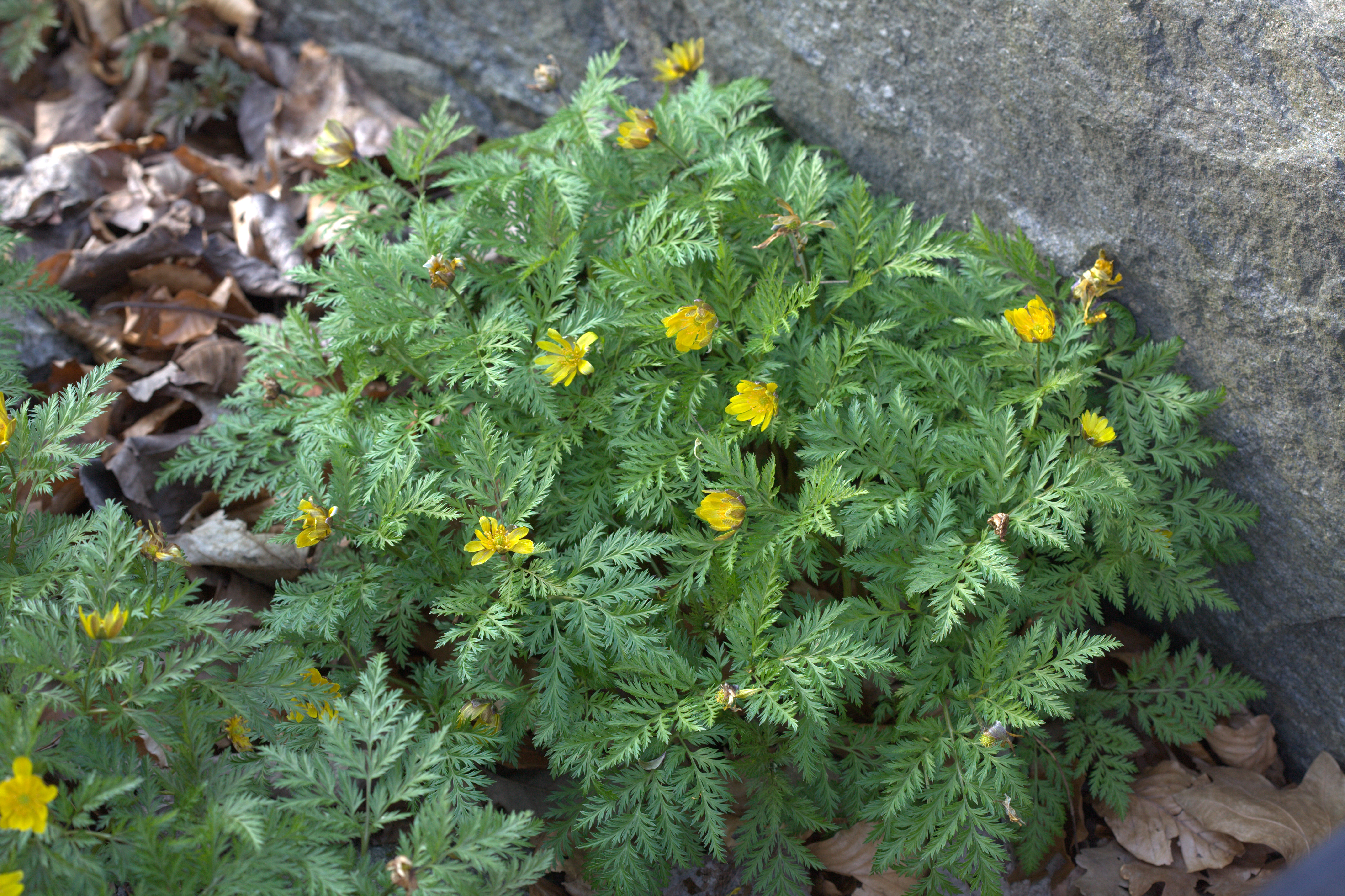 Photo of Adonis amurensis at the botanical garden in Gothenburg (in Perennträdgården near Pinetet). Specimen id: 1992-2465 p G Plant collected in 1900 from a garden in Omberg.